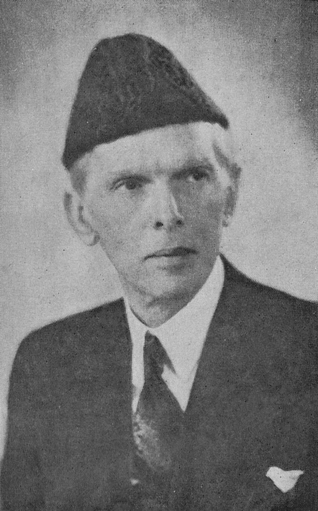 M. A. Jinnah in 1945